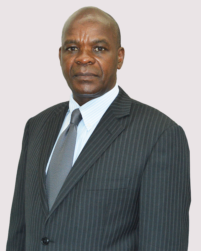 Portrait of Professor Joseph Mugisha